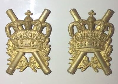 The Danish insignia for the position of Chief of Defence, it was only used by Chief of Defence Otto K. Lind and features two crossed generals batons